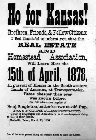 “Ho For Kansas!”